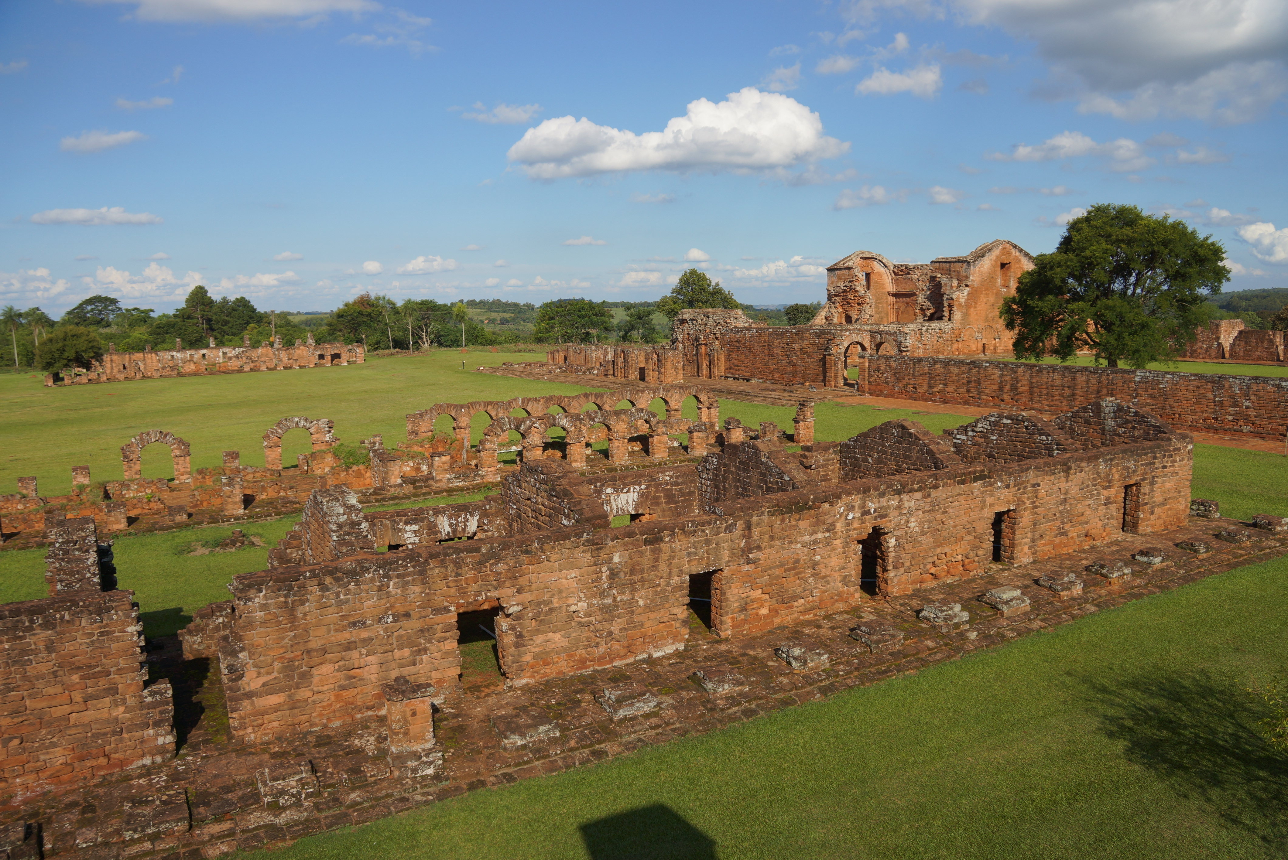 General view of houses and the church (background) of the Jesuit Reduction of Trinidad in Southern Paraguay.